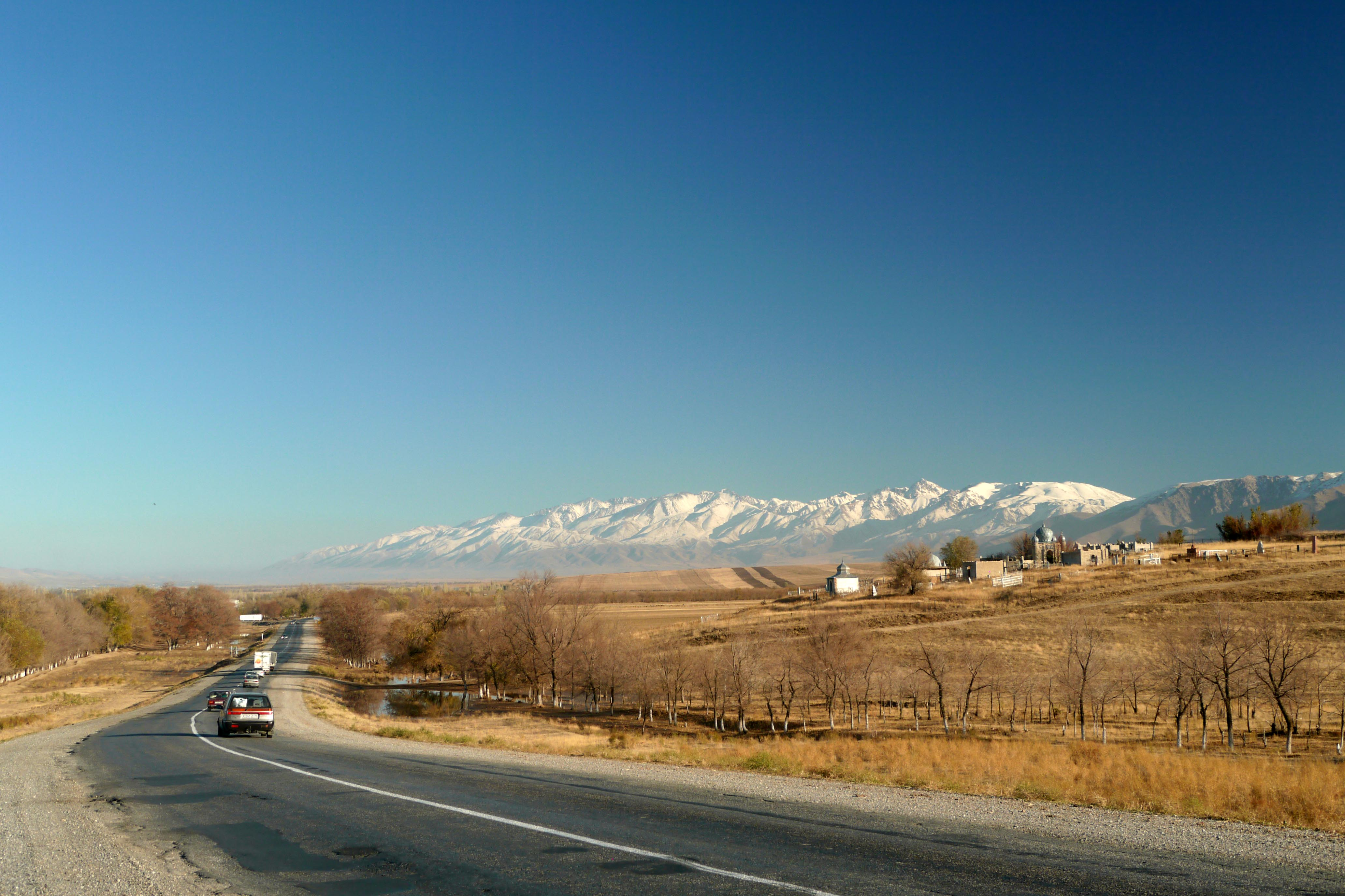 Kazakhstan in autumn, the Tian-shan mountains visible in the distance.